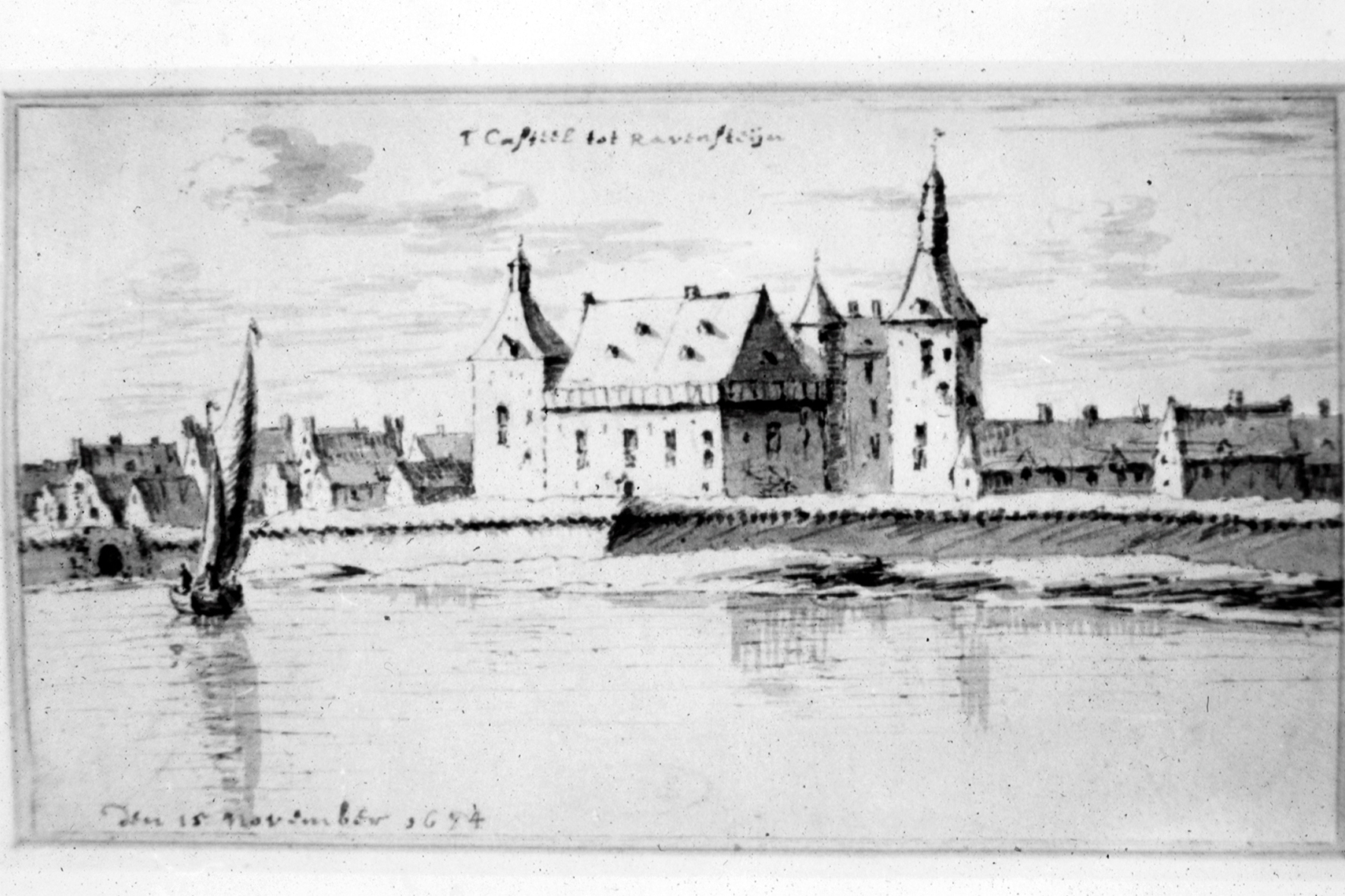 Castle Ravenstein in 1694